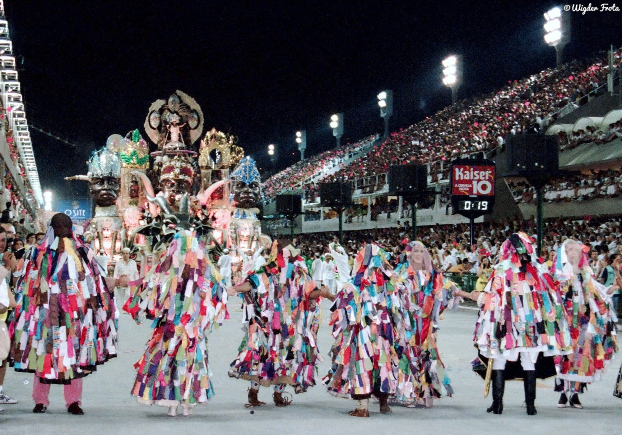 From the Series "Samba Schools, Rio de Janeiro" Carnival 2000 Photo: Wigder Frota